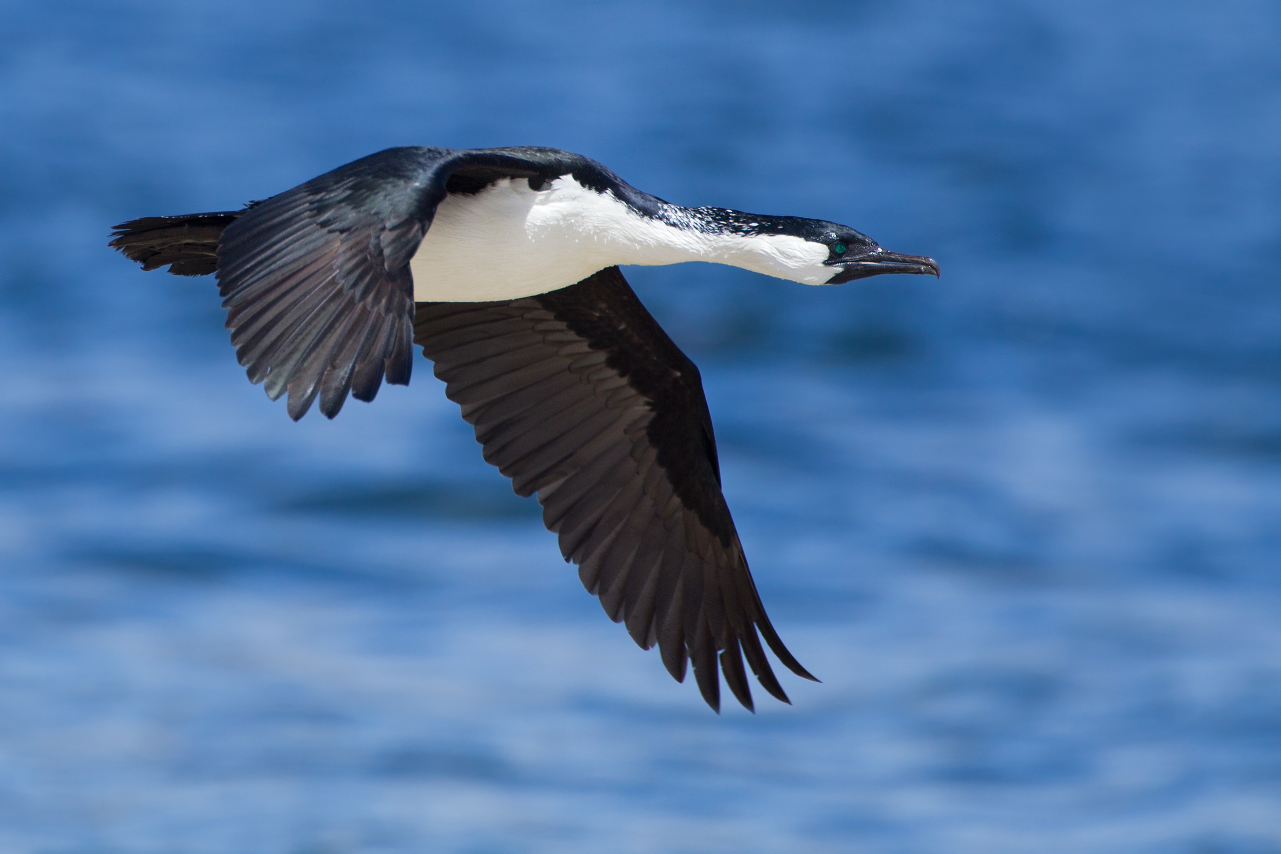 Black-faced Cormorant (Phalacrocorax fuscescens), Marion Bay, Tasmania